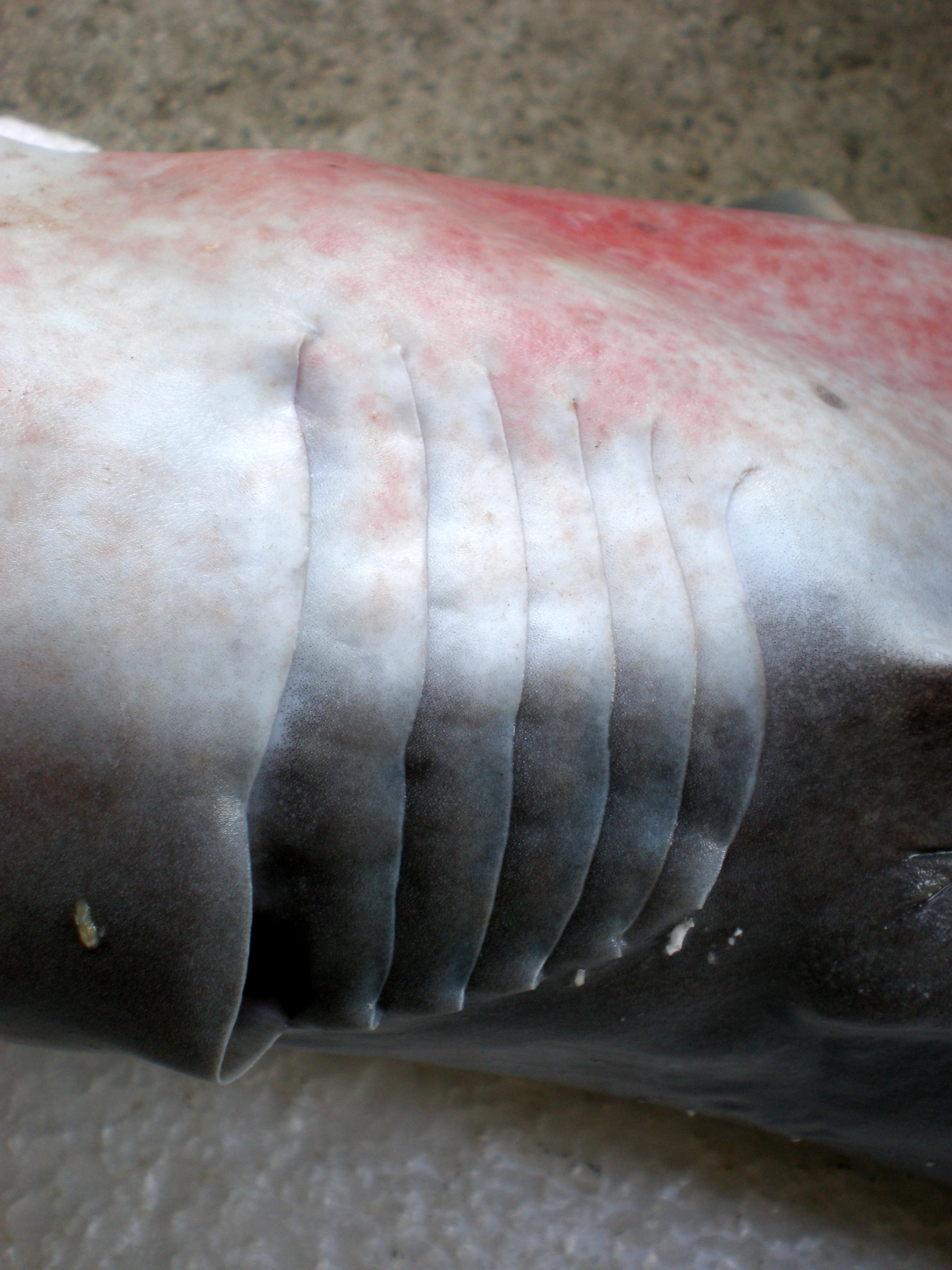 Hexanchus nakamurai. View of 6 gill openings. Locality: near Passe de Dumbéa, off Nouméa, New Caledonia, Coordinates 22°19'670S, 166°12'899E. Total length 1020 mm, Weight 3,600 grams. Date 03 July 2008. This specimen has been identified by Bernard Séret, IRD-MNHN.